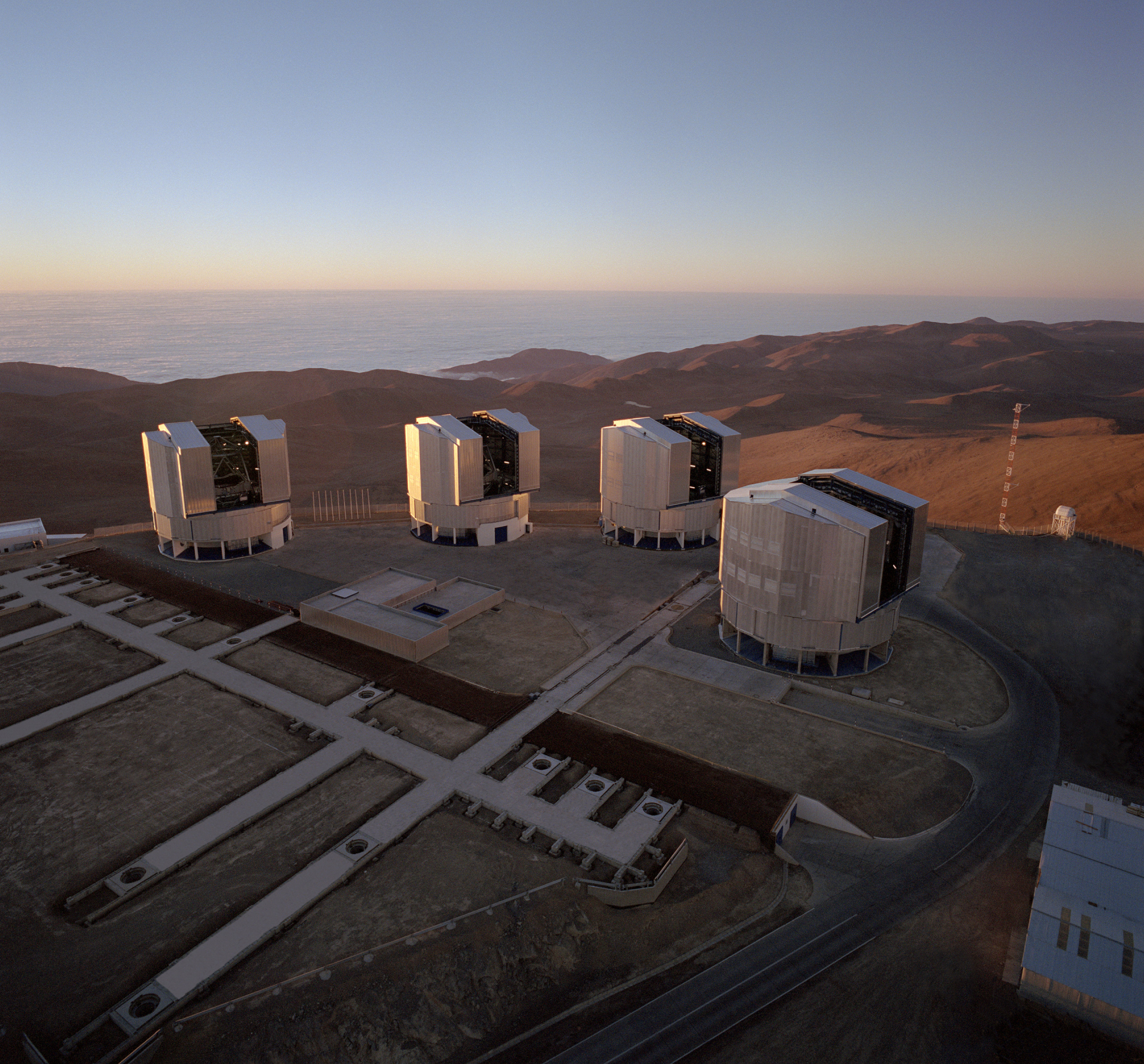 Aerial view of the Very Large Telescope Array (VLT) in the Paranal Mountain, Chile. The VLT consists of four separate optical telescopes, each having a 8.2 meter aperture.